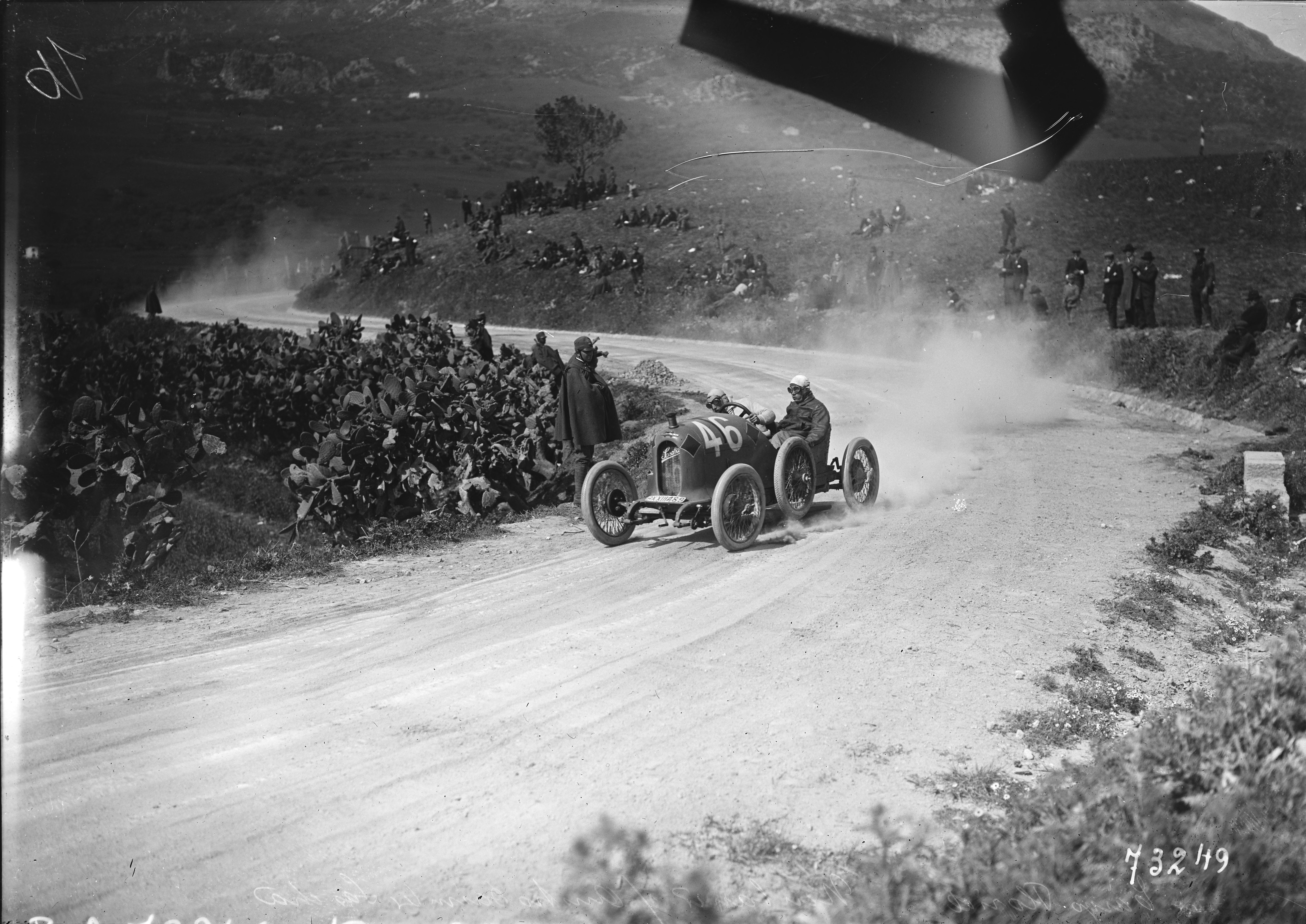 Alfred Neubauer in his Austro-Daimler at the 1922 Targa Florio.